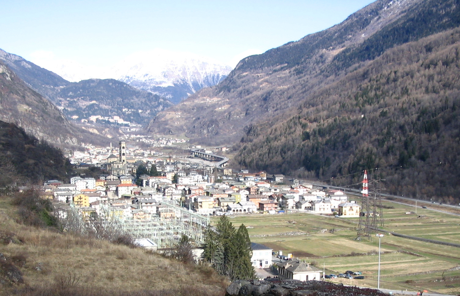 A panoramic vista of the town of Grosio, Italy